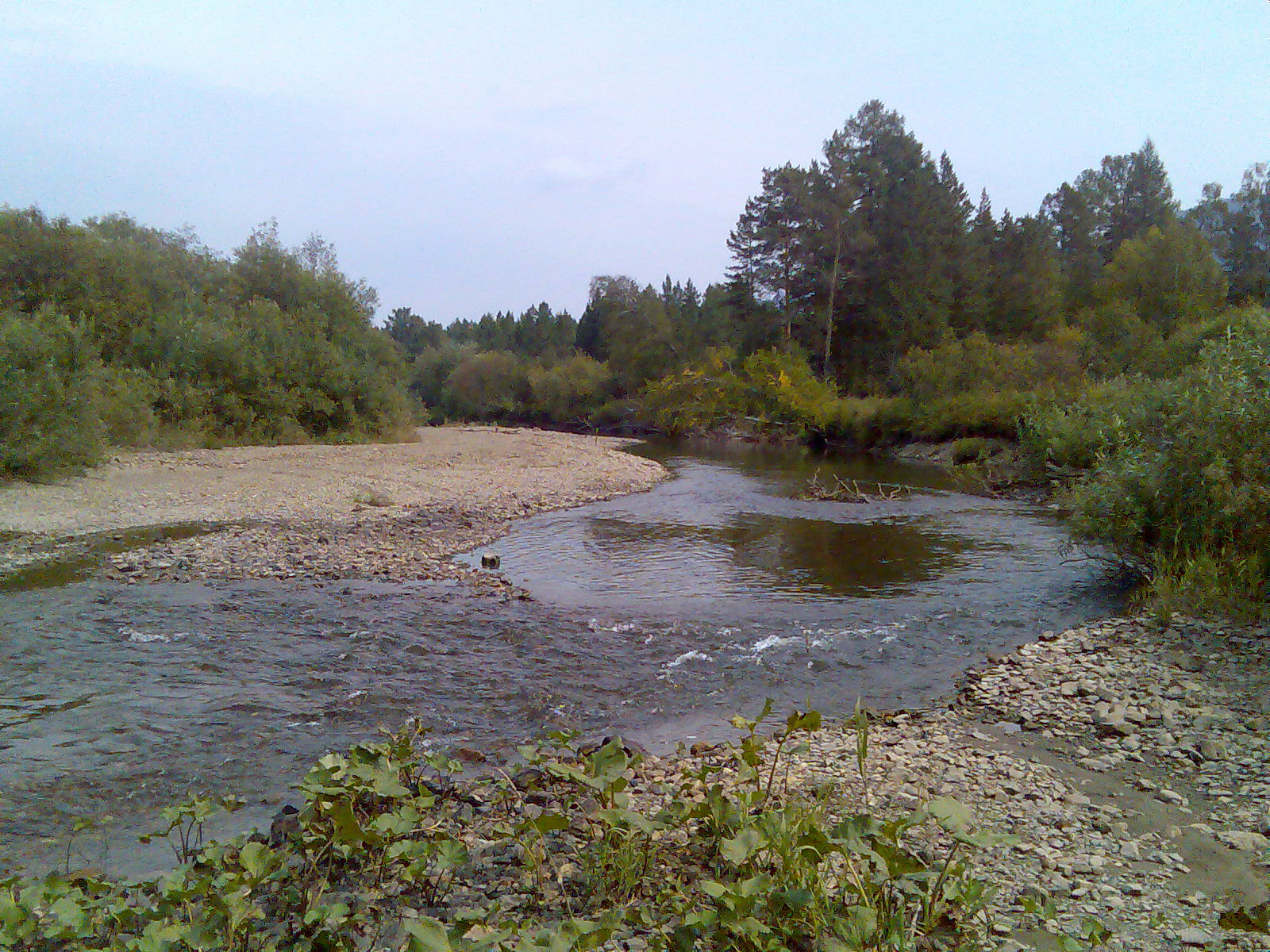 Shoal on Yuryuzan.